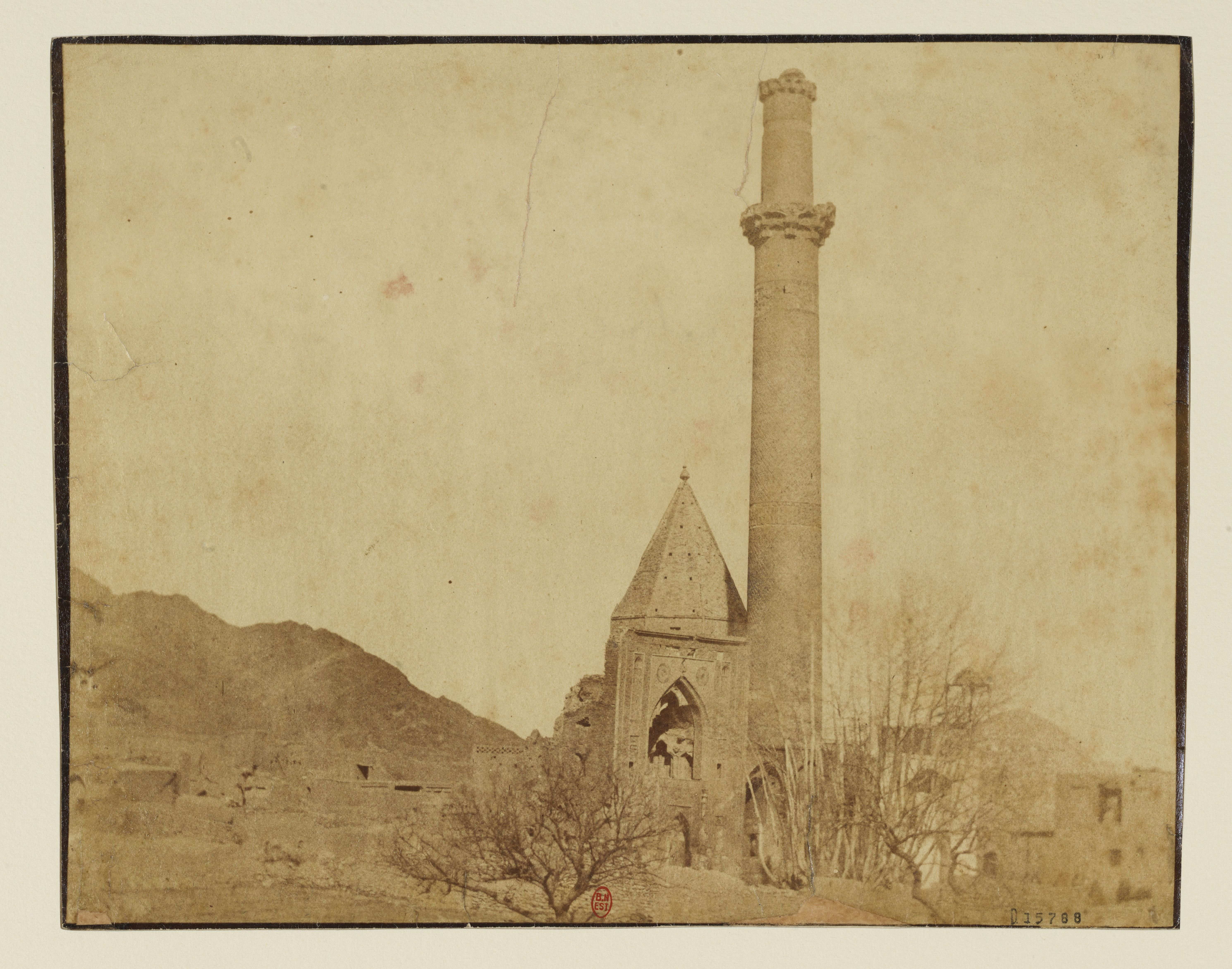 Natanz, minaret Khanqah d'Abd al-Samad